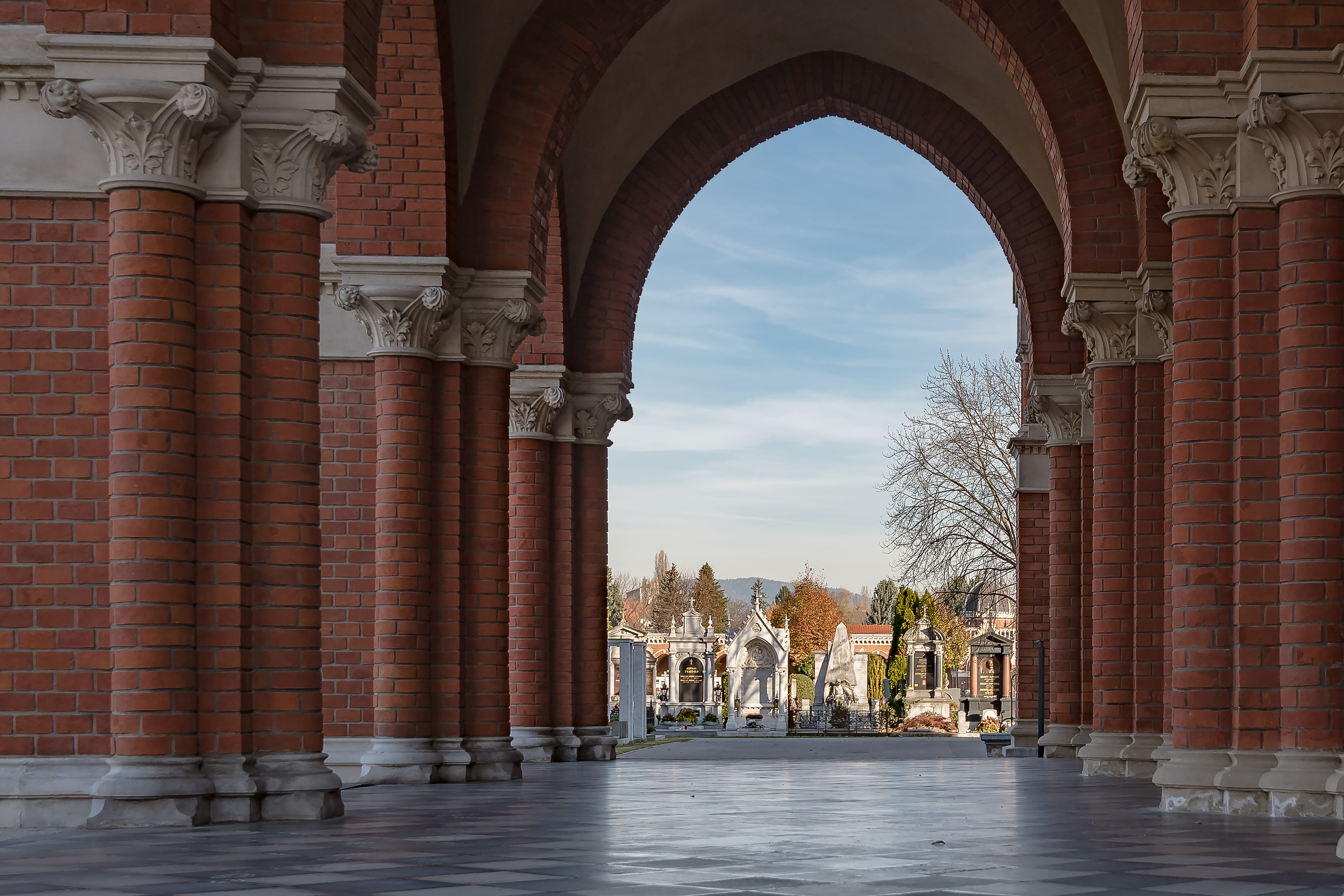 View across the main portal of the church on Zentralfriedhof Graz (former Salvator church, 1996 dedicated to the Saints Cyril and Methodius)